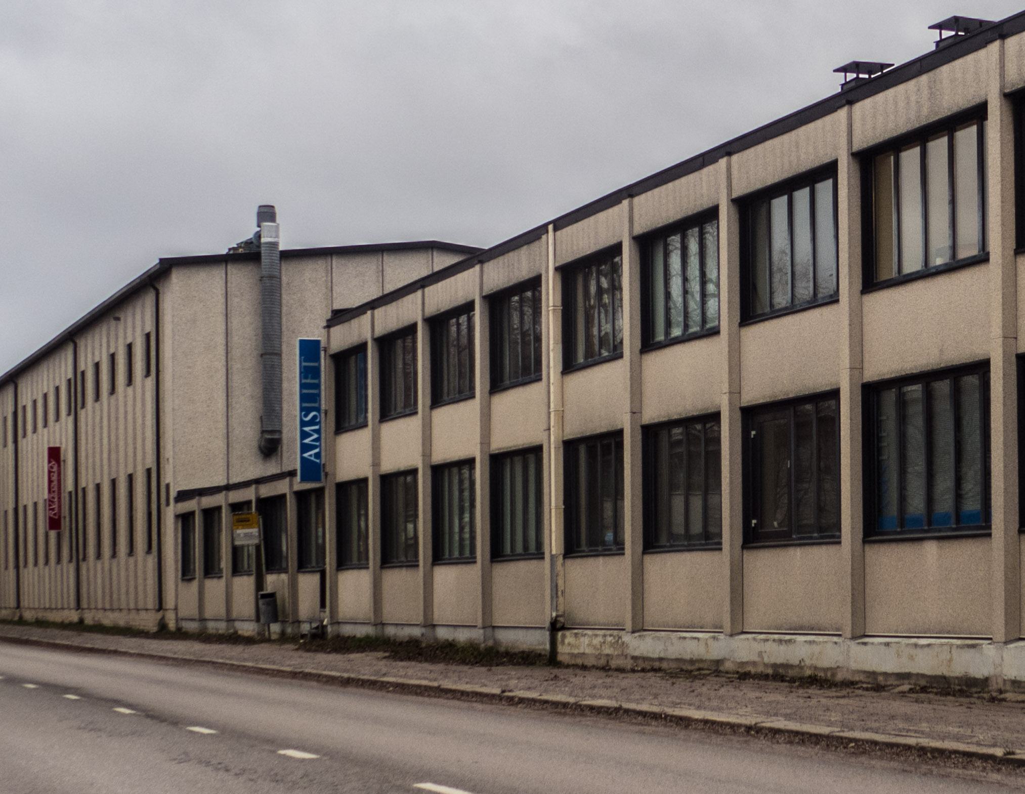 Lift/Elevator manufacturer Amslift on Ruissalontie, Turku, Finland.